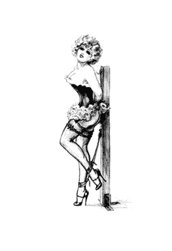 Painting of S/M sexuality